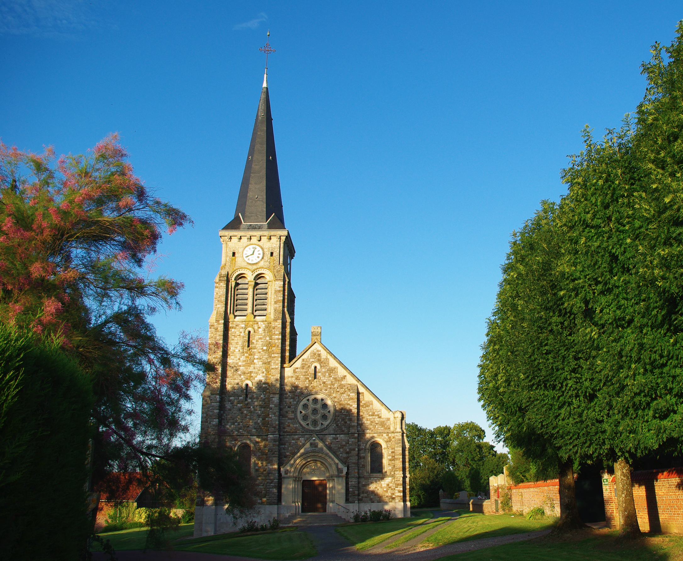 Facade of Coullemelle church, August 2010.